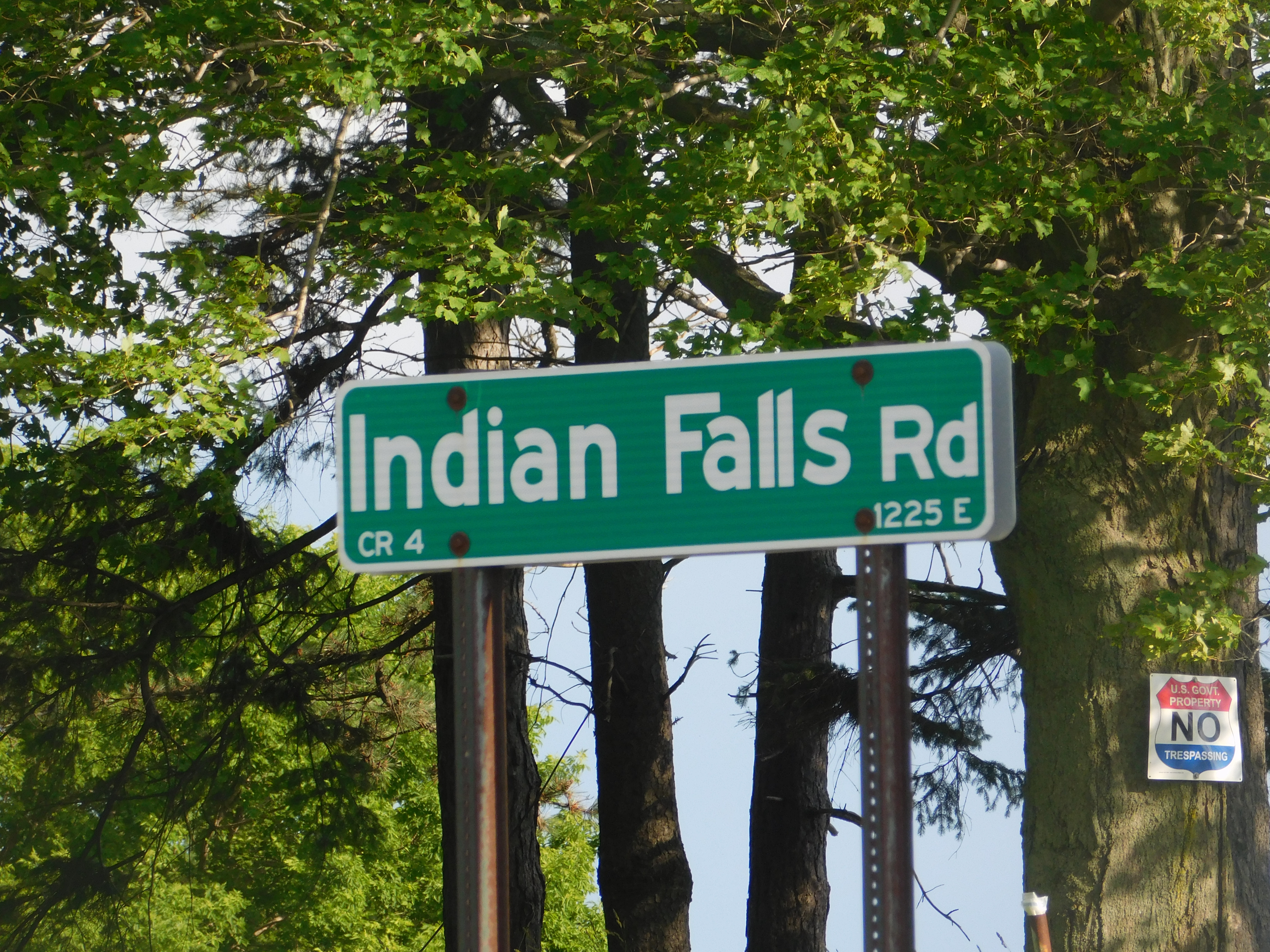 CR 4 signage in Pembroke, New York.